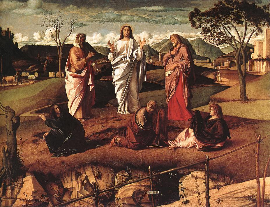 Transfiguration of Christ, c. 1480, oil, 116 x 154 cm, Galleria Nazionale di Capodimonte, Nápoly Bellini, Giovanni (1426-1516)